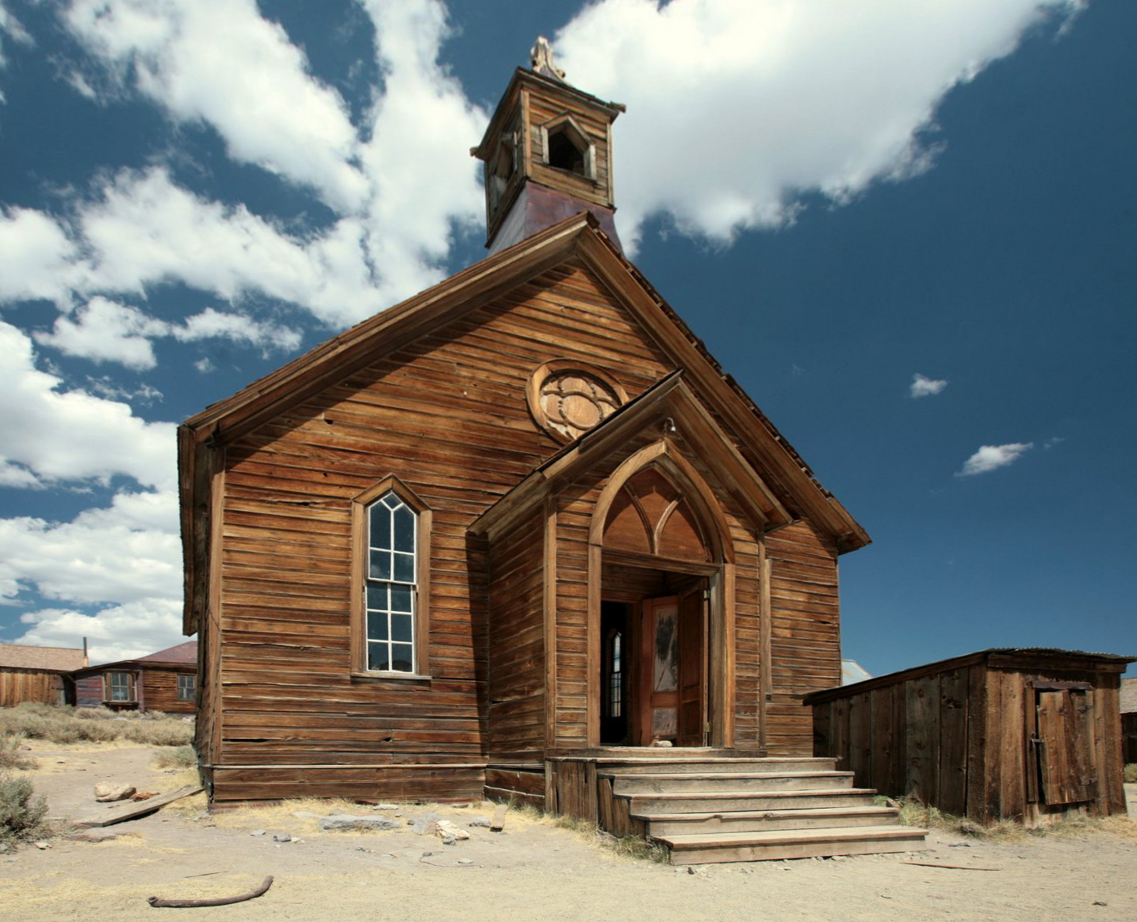 The Church in Bodie, CA